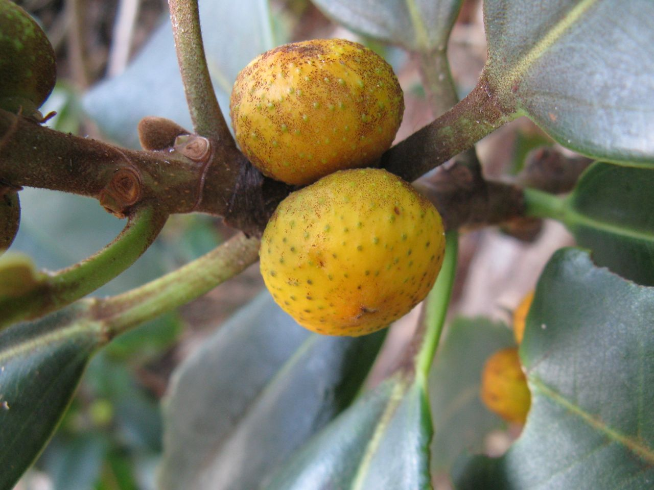 Ficus rubiginosa, Port Macquarie, NSW, Australia, fruit not quite ripe